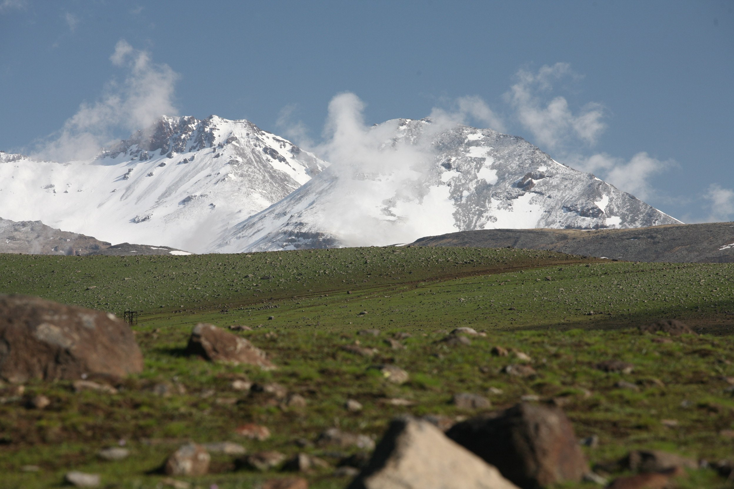 Mt Aragats